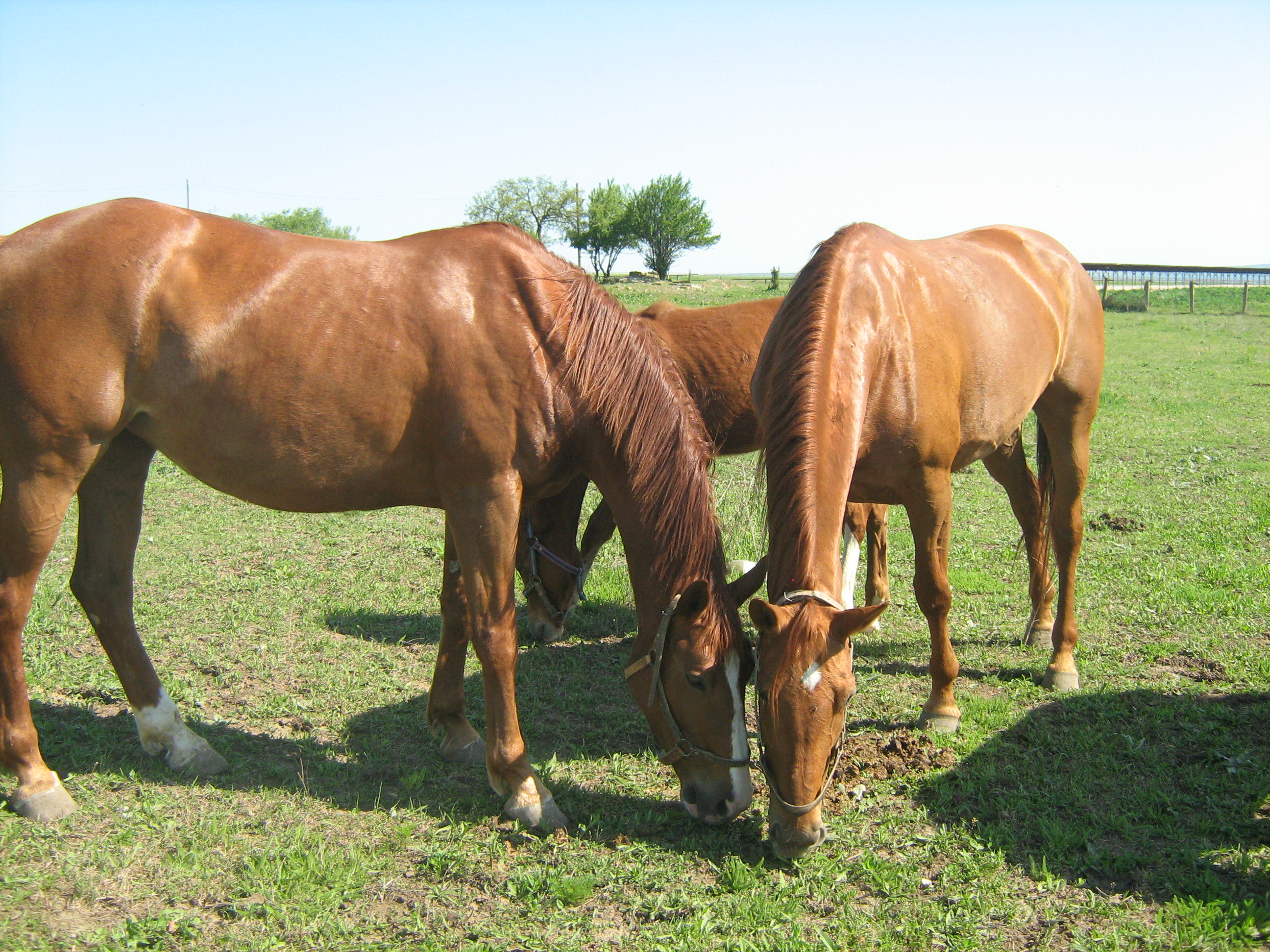 Pleven horse